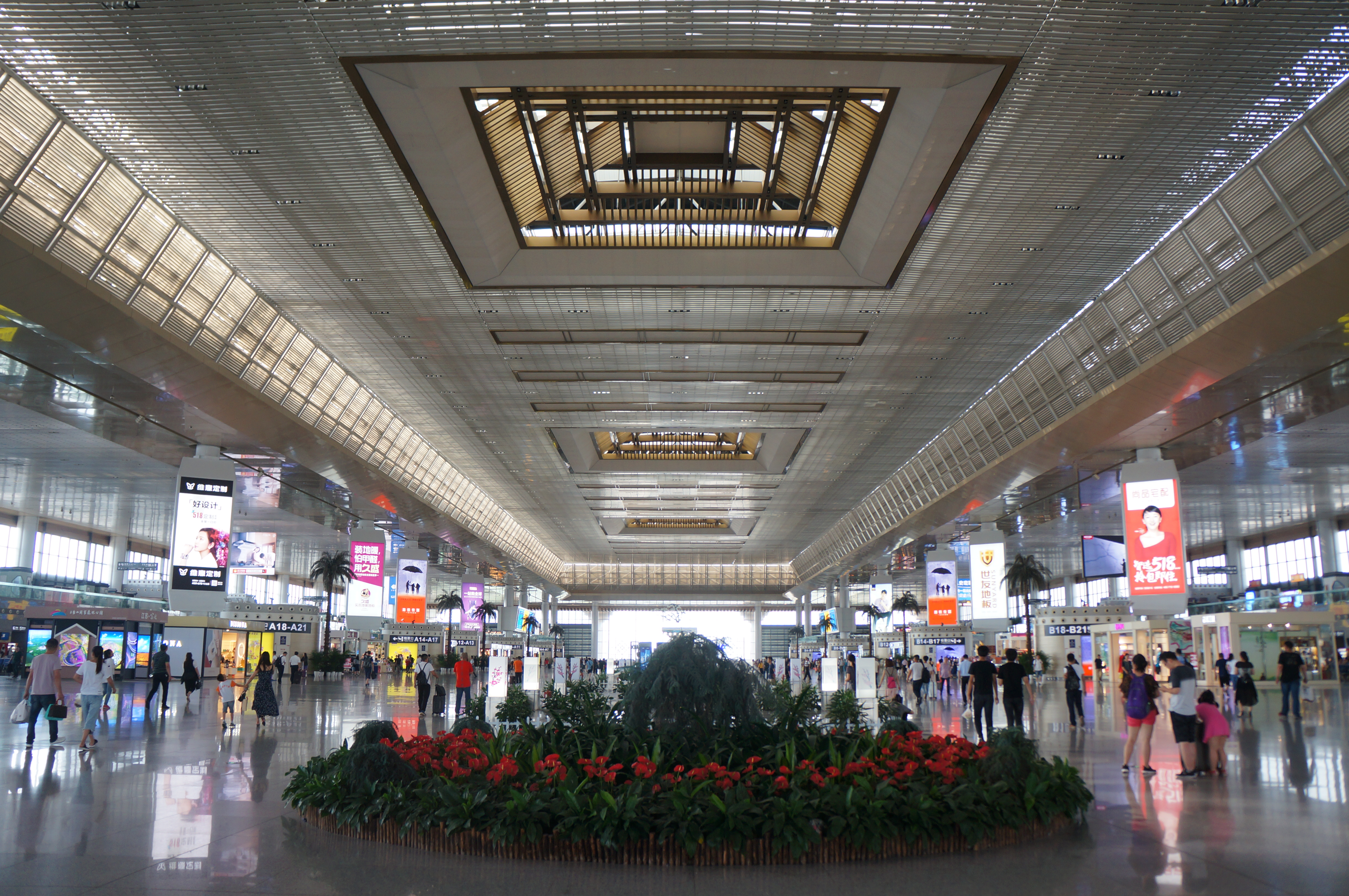 201806 Departure Floor of Nanjingnan Station